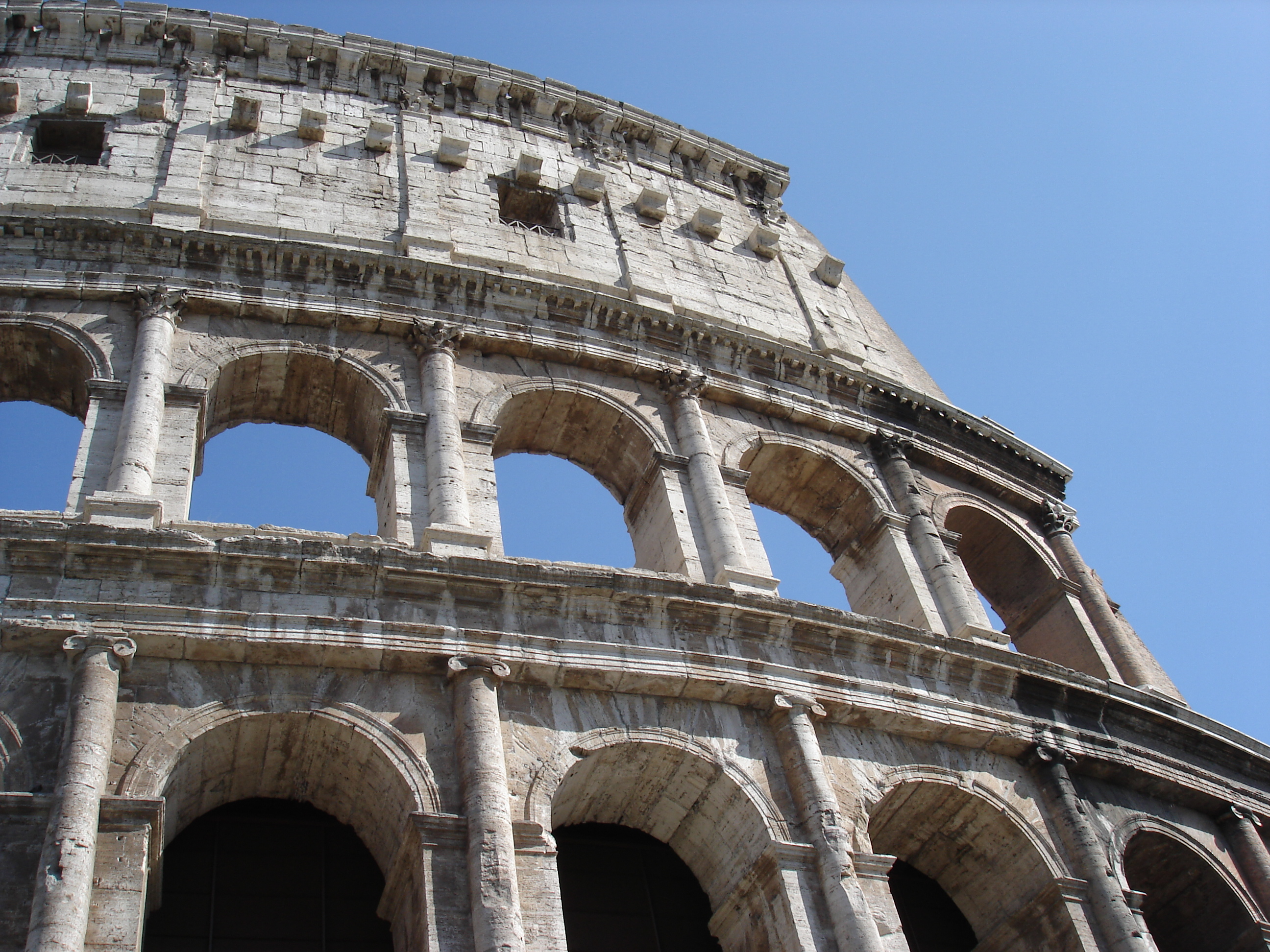 Colosseum, Rome in July.